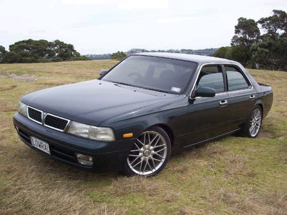 Nissan laurel C34 1993